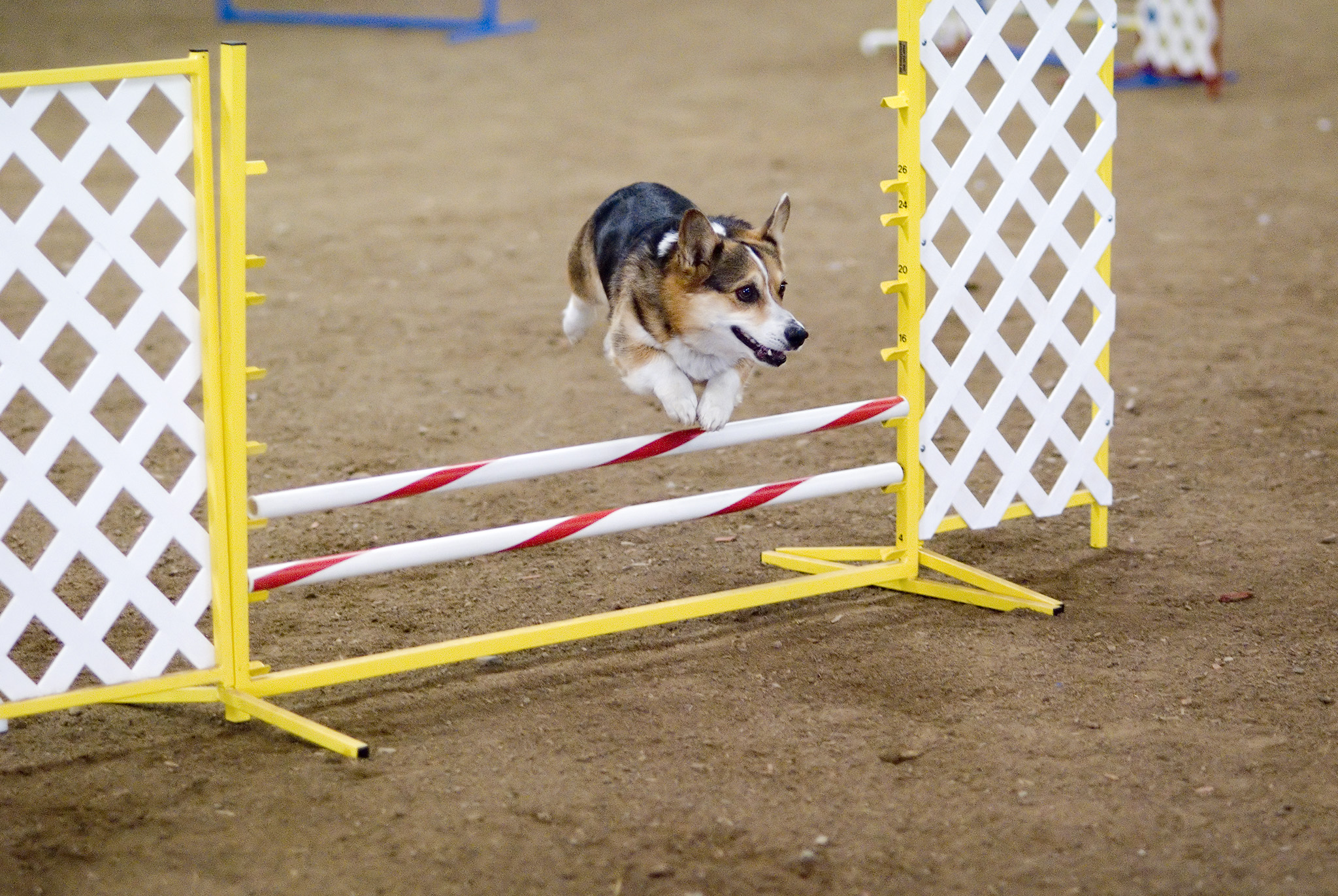 A Pembroke Welsh Corgi during an agility competition.